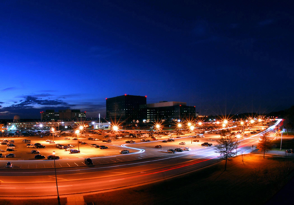 NSA headquarters at night - Original title: "The Mission Never Sleeps" - Dated November 17, 2009